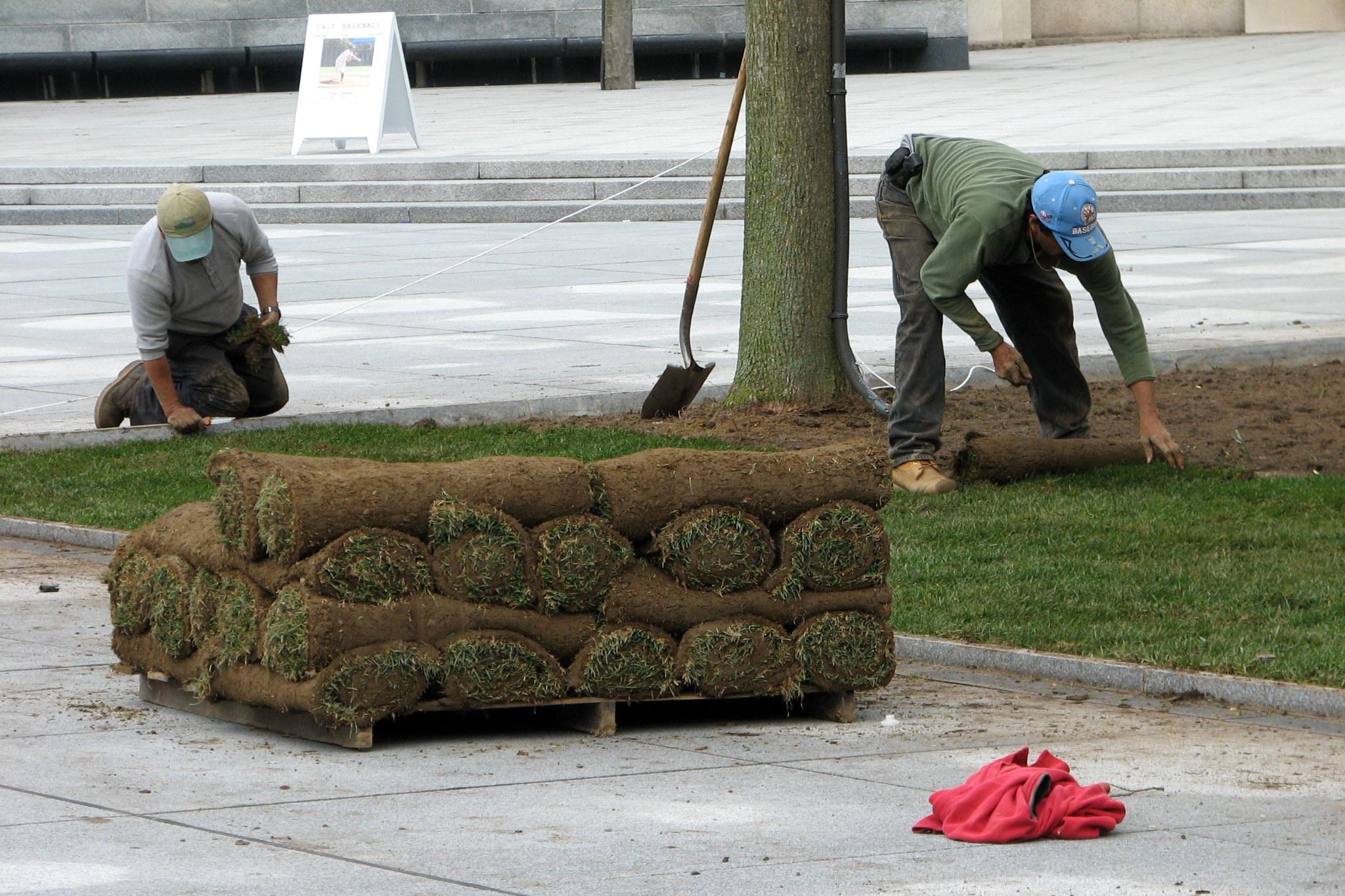 Workers lay sod on the campus of Yale University.